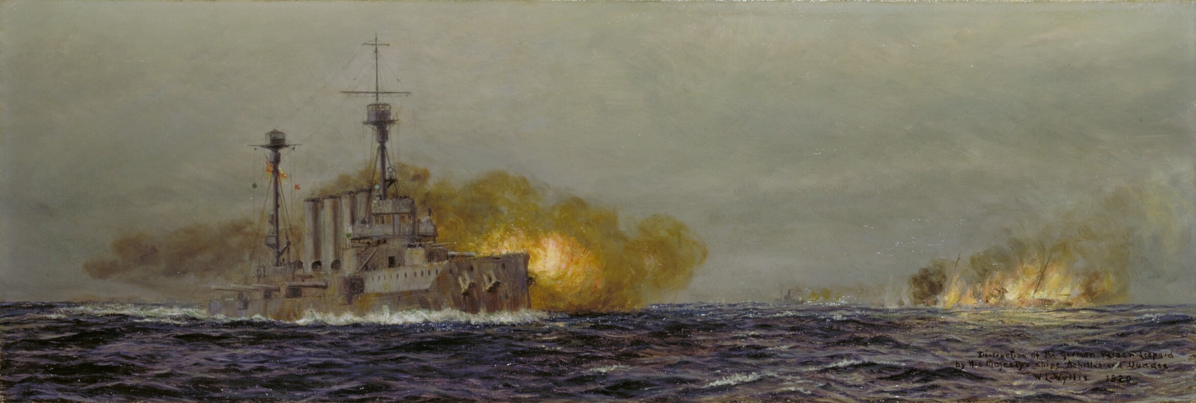 Destruction of the German Raider 'leopard' by His Majesty's Ships 'achilles' and 'dundee image: A sea battle with 'Achilles' in the foreground firing on the 'Leopard'. The German raider is smothered in flames in the background, and there is a large cloud of smoke and flames on the port side of the 'Achilles'.